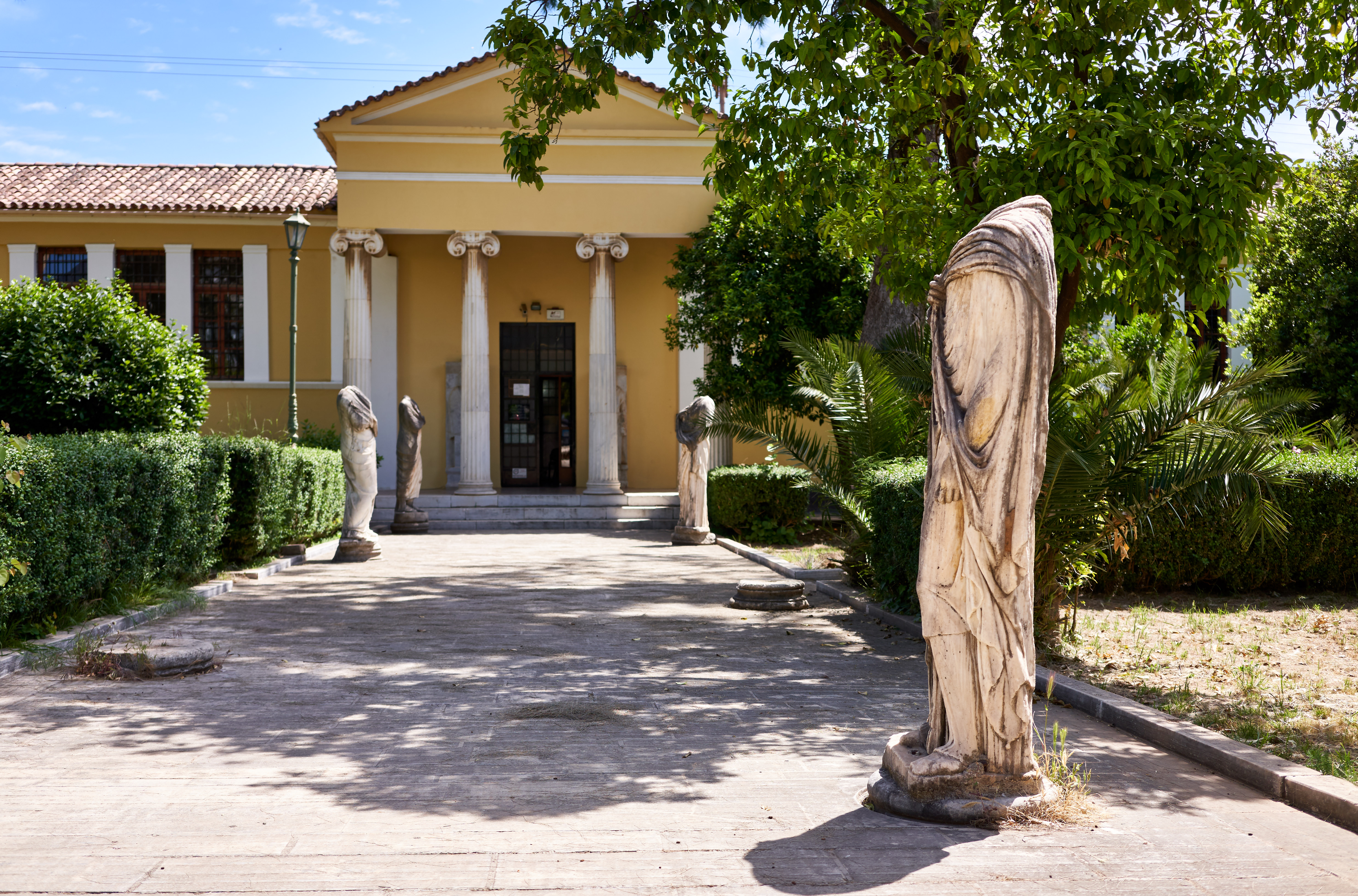 The entrance to the Archaeological Museum of Sparta. Sparta, Greece.